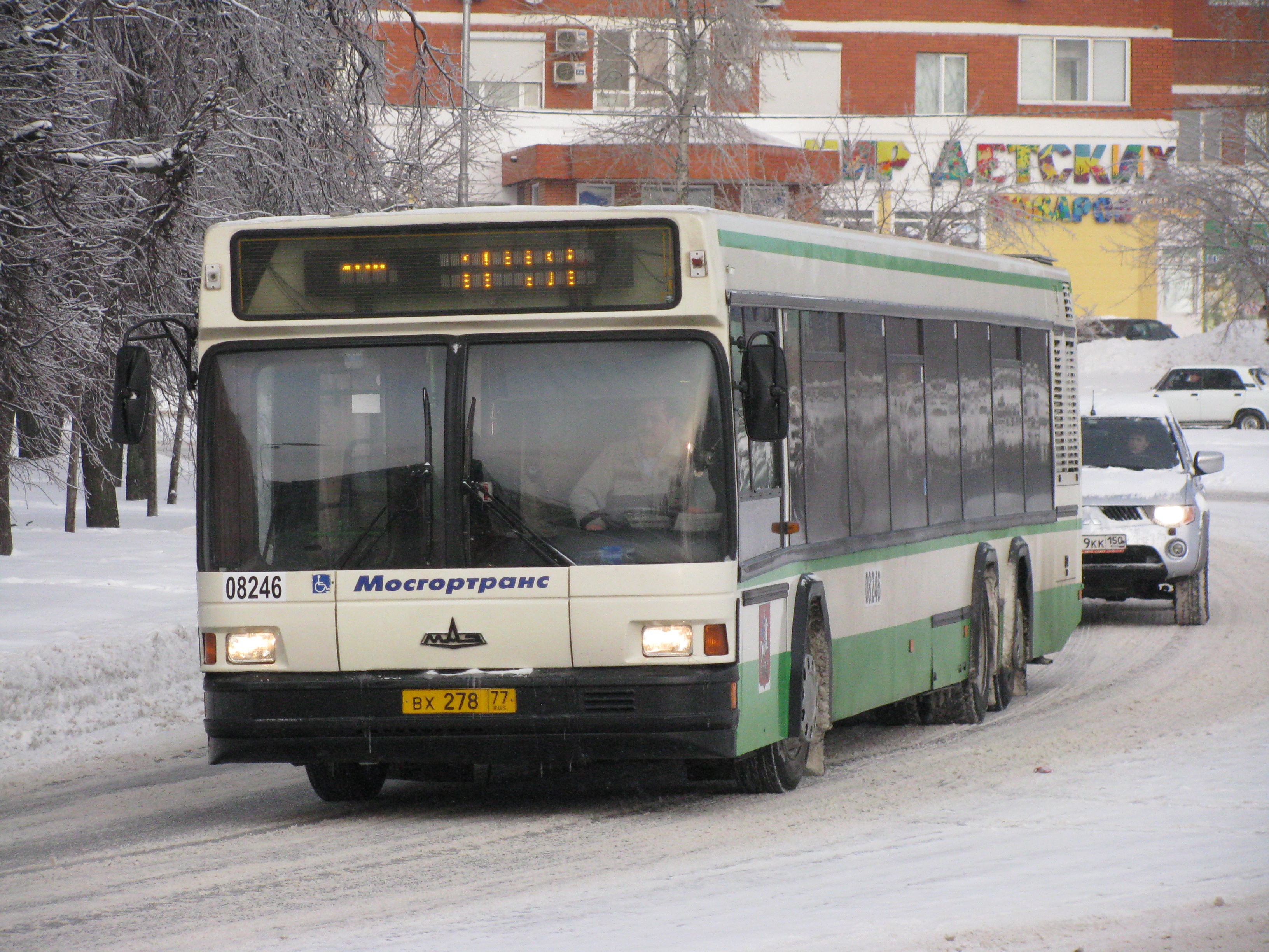 MAZ 107.066 bus (#08246) in Moscow, Russia. Мосгортранс Москва operator.